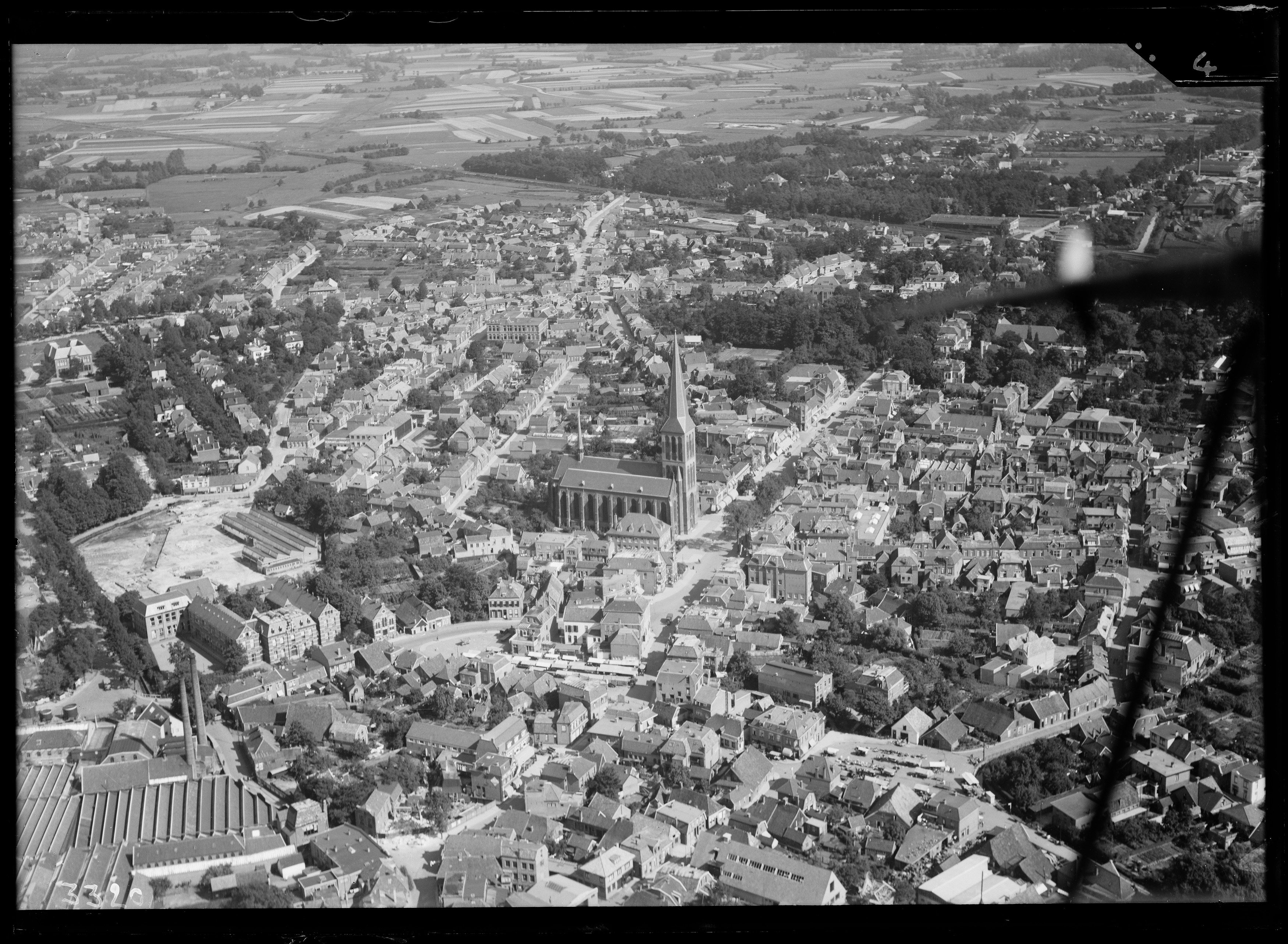 Aerial photograph of Hengelo, The Netherlands